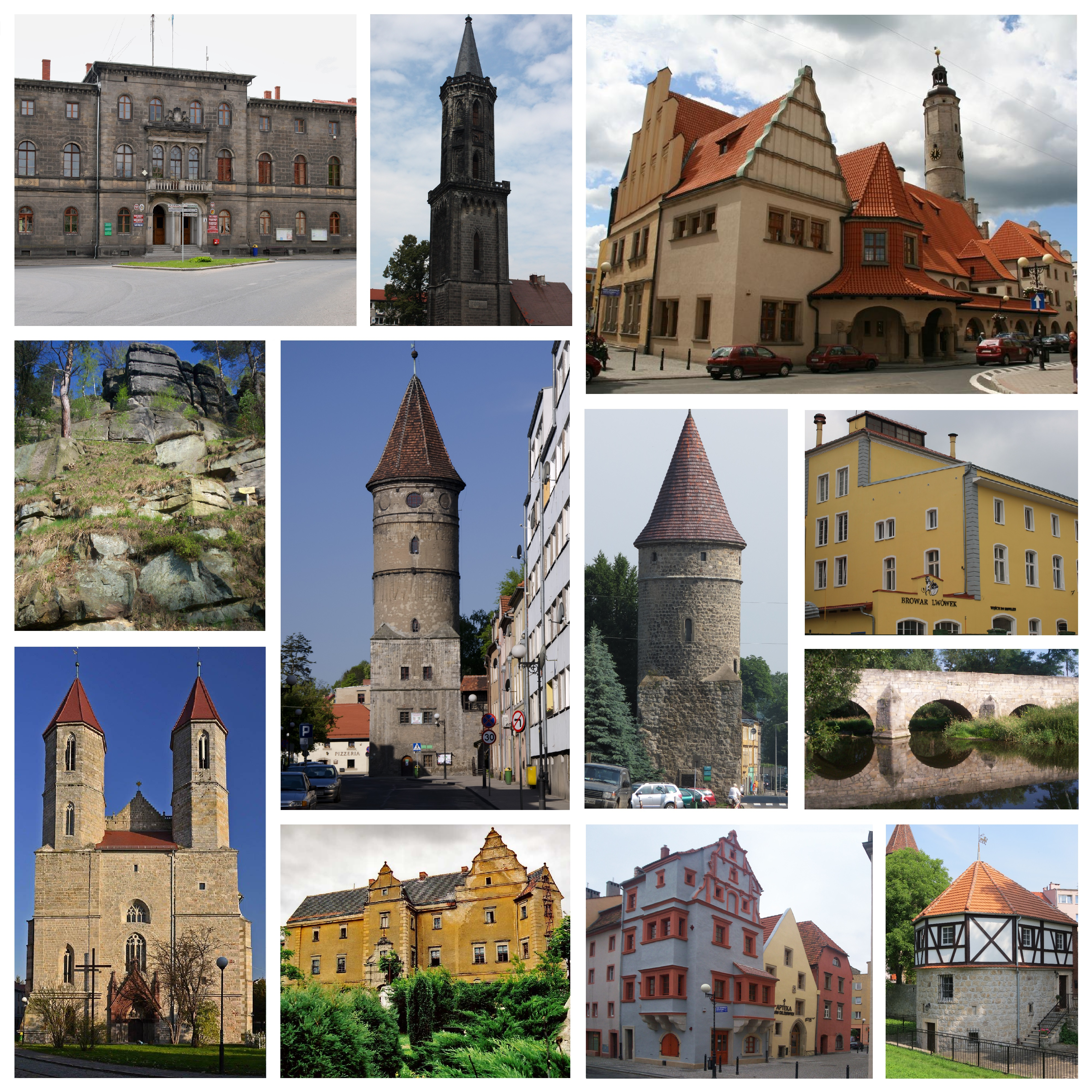 Multi-photo of Lwowek Slaski